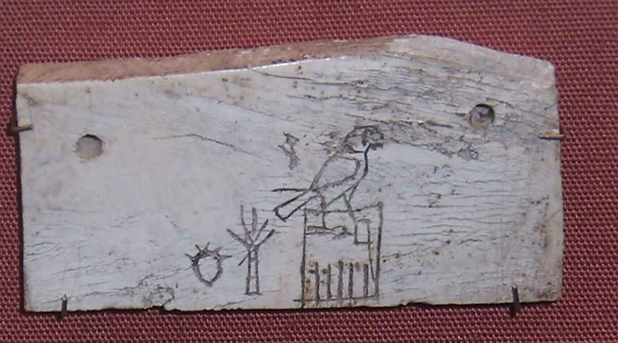 Label with the name of the First Dynasty Egyptian King Hor-aha and a second word, perhaps Bernerib; British Museum